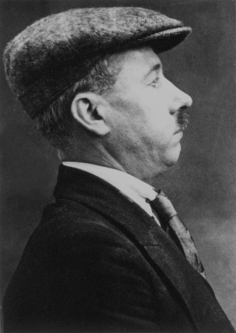 Mug shot of B. Traven a.k.a. Ret Marut (Otto Feige) after his arrest in London, 1923